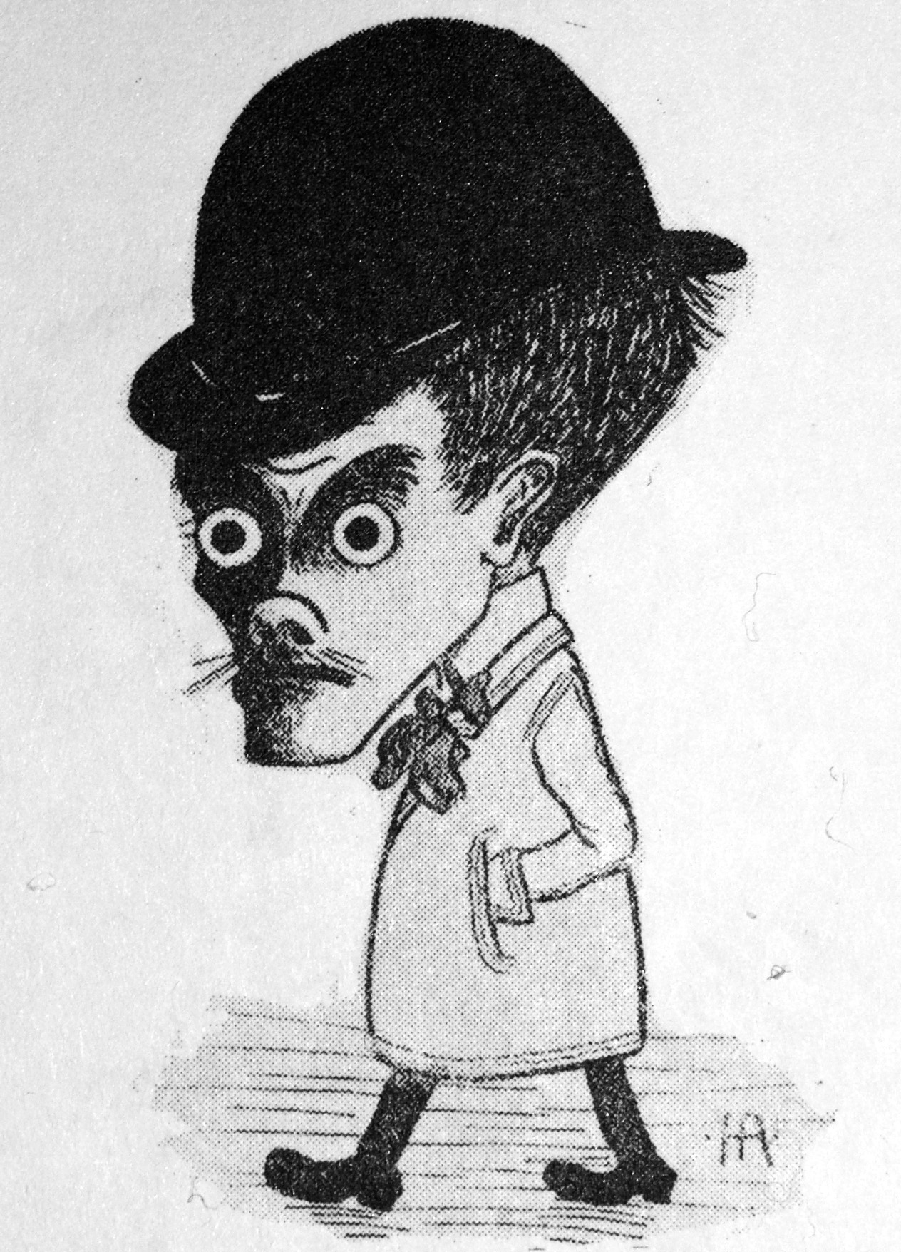 Self-portrait of Finnish artist Kaarlo Kari (1872-1941)